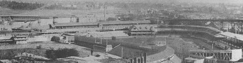 Photo scanned, cropped, and downsized, from the book Diamonds: The Evolution of the Ballpark, by Michael Gershman, 1993, p.51. I claim fair use on these grounds... The image linked here is claimed to be used under fair use as: it is a historically significant photo of a famous individual or event or structure; it is of much lower resolution than the original (copies and blowups made from it will be of very inferior quality); the photo is only being used for informational purposes; Its inclusion in the article adds significantly to the article because it shows the subject of this article and how the event depicted was very historically significant to the general public. [1] Wahkeenah 01:03, 12 March 2006 (UTC)